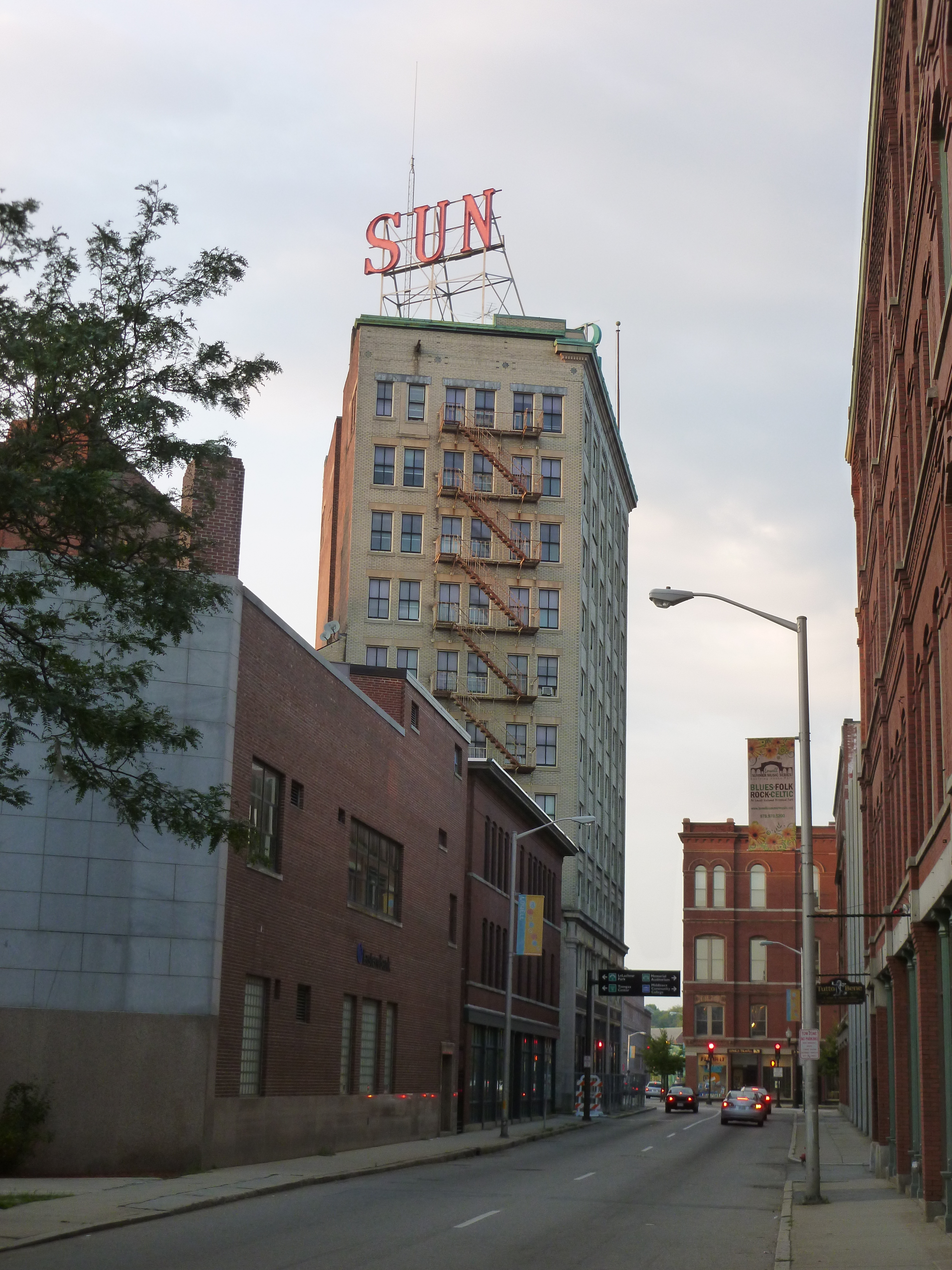 The Lowell Sun building, located at 491 Dutton Street, Lowell, Massachusetts. Shown are the south and east sides of building, as viewed from Dutton Street.